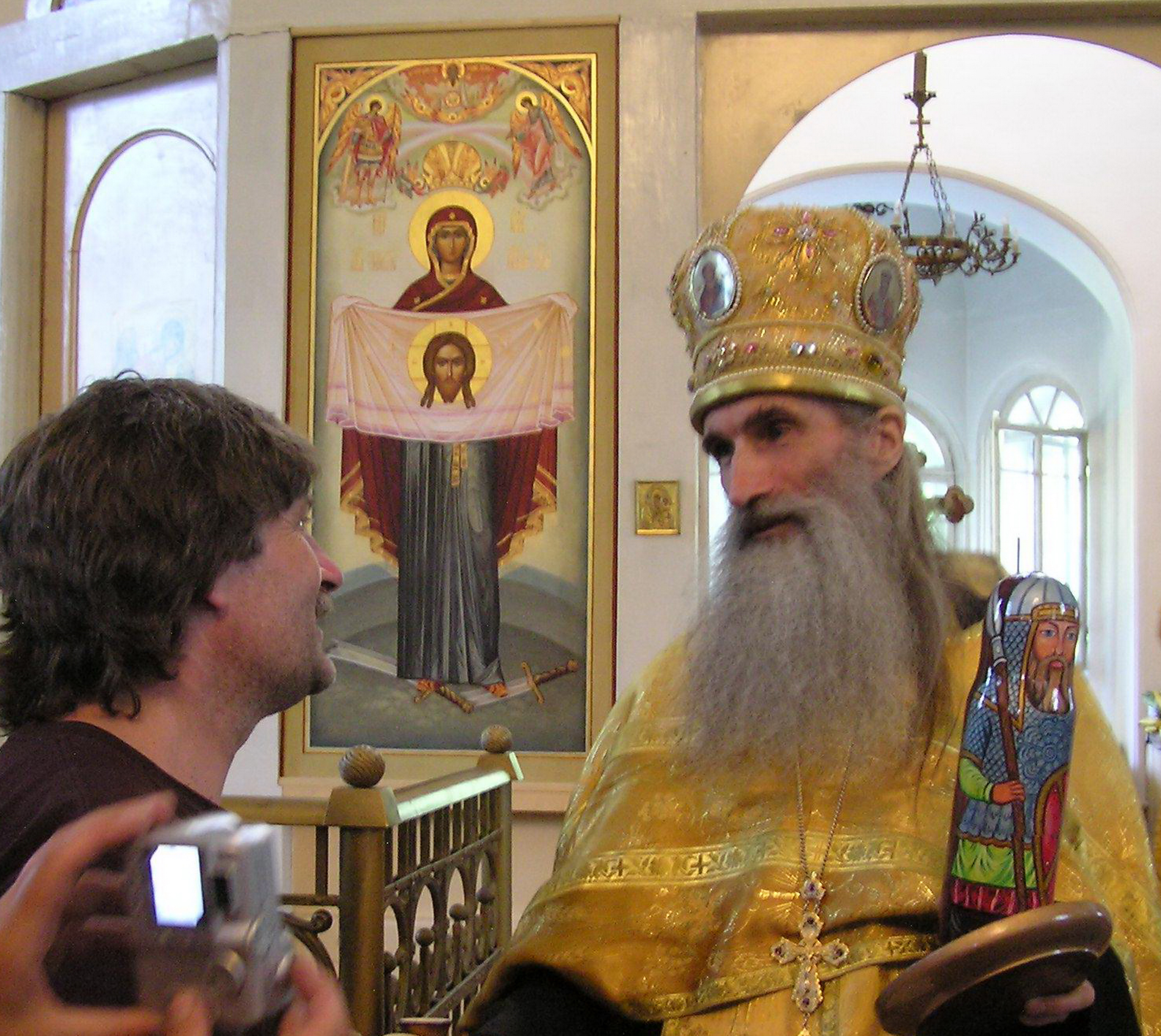 Oleg Teor at Saint Alexander Nevsky Church, Pskov, 2003.